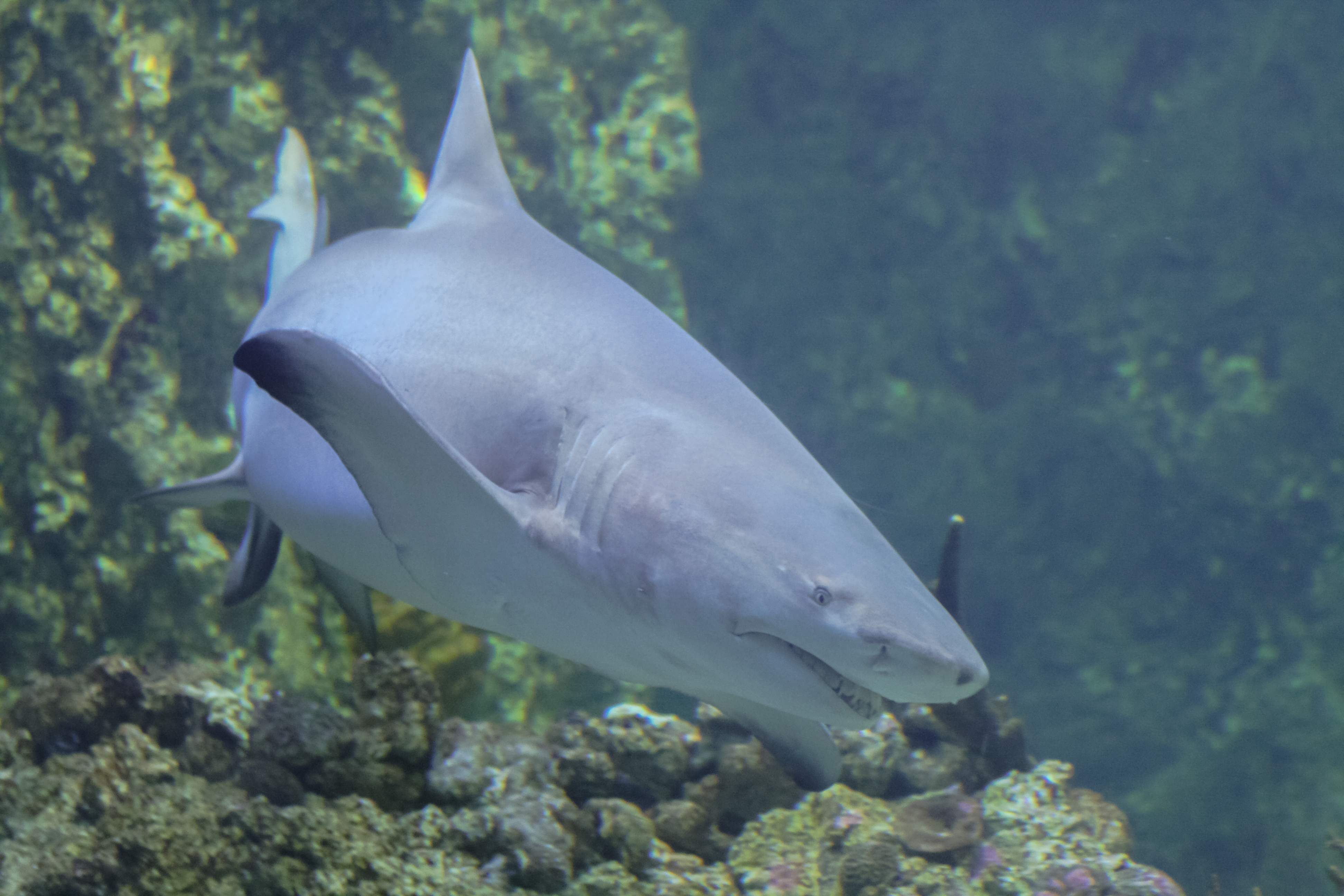 Sicklefin lemon shark (Negaprion acutidens) in the Sydney Aquarium (Selachimorpha), Australia